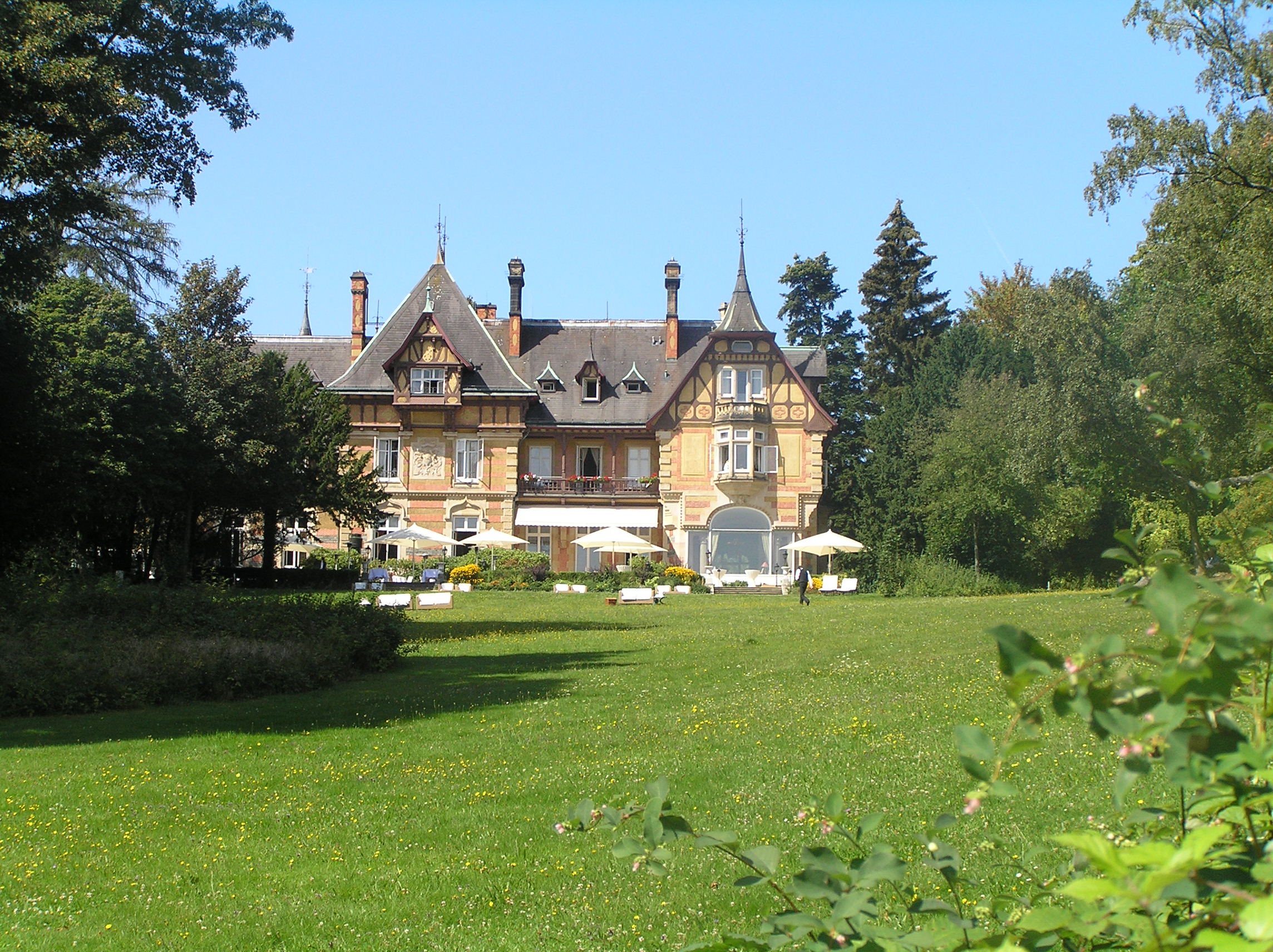 Villa Rothschild, summer house of Wilhelm Carl von Rothschild, today used as hotel, in Königstein, Backside